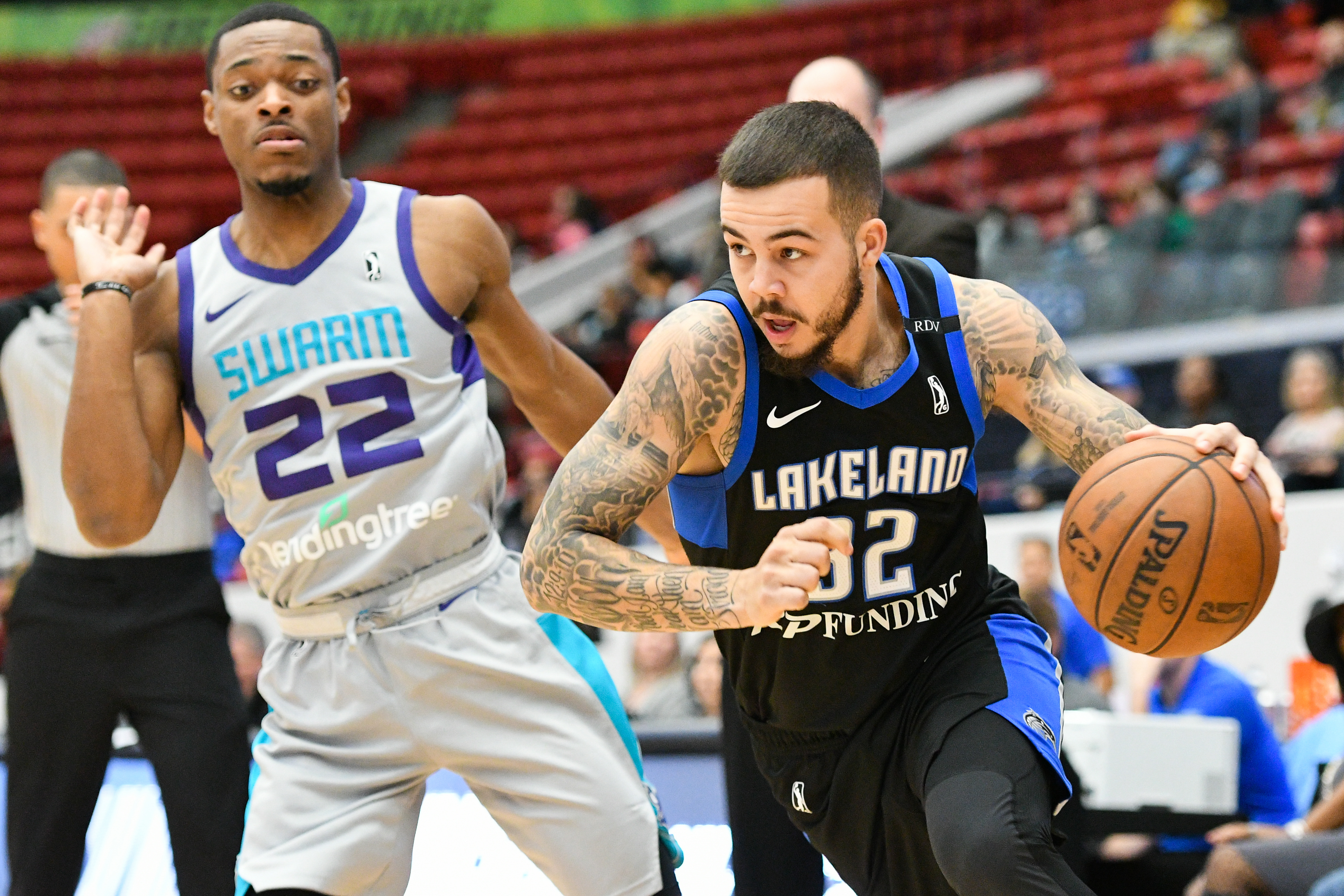 Lakeland Magic vs. Greensboro Swarm. RP Funding Center. Lakeland, Fla. Jan. 25, 2019. (Photo by Tom Hagerty.)